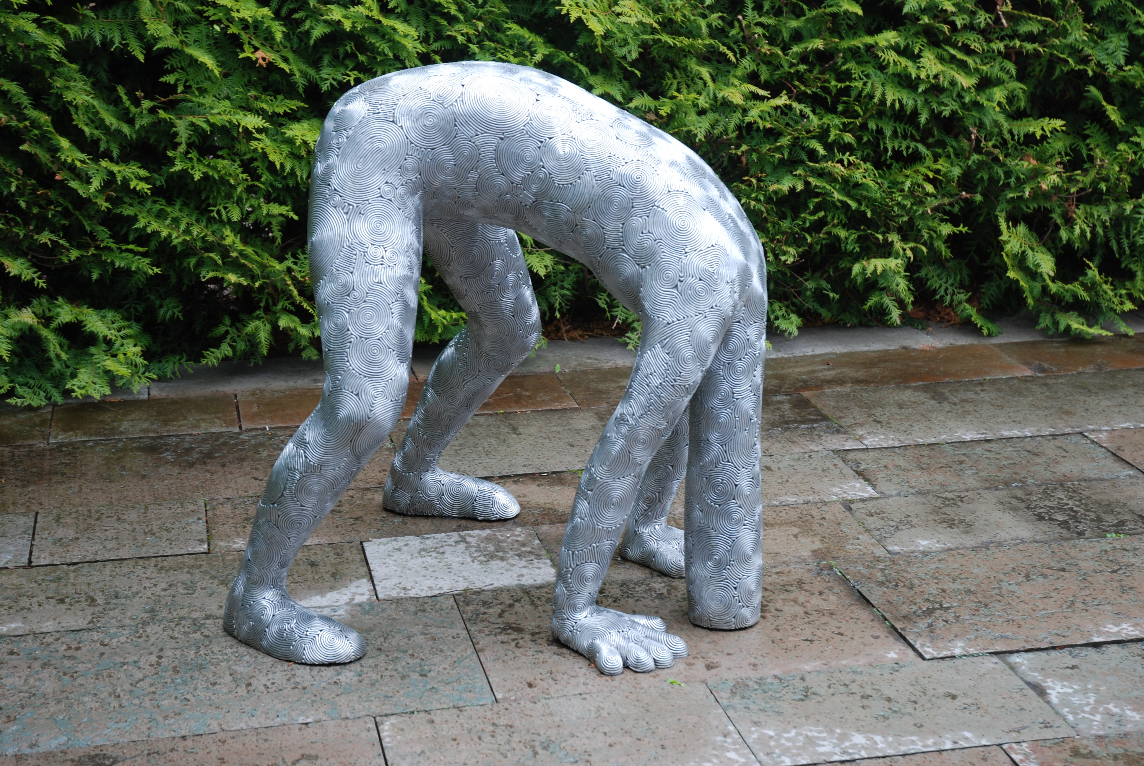 Maria Miesenberger´s Human Ostrich, aluminium, outside VIDA Museum & Konsthall, Öland, Sweden